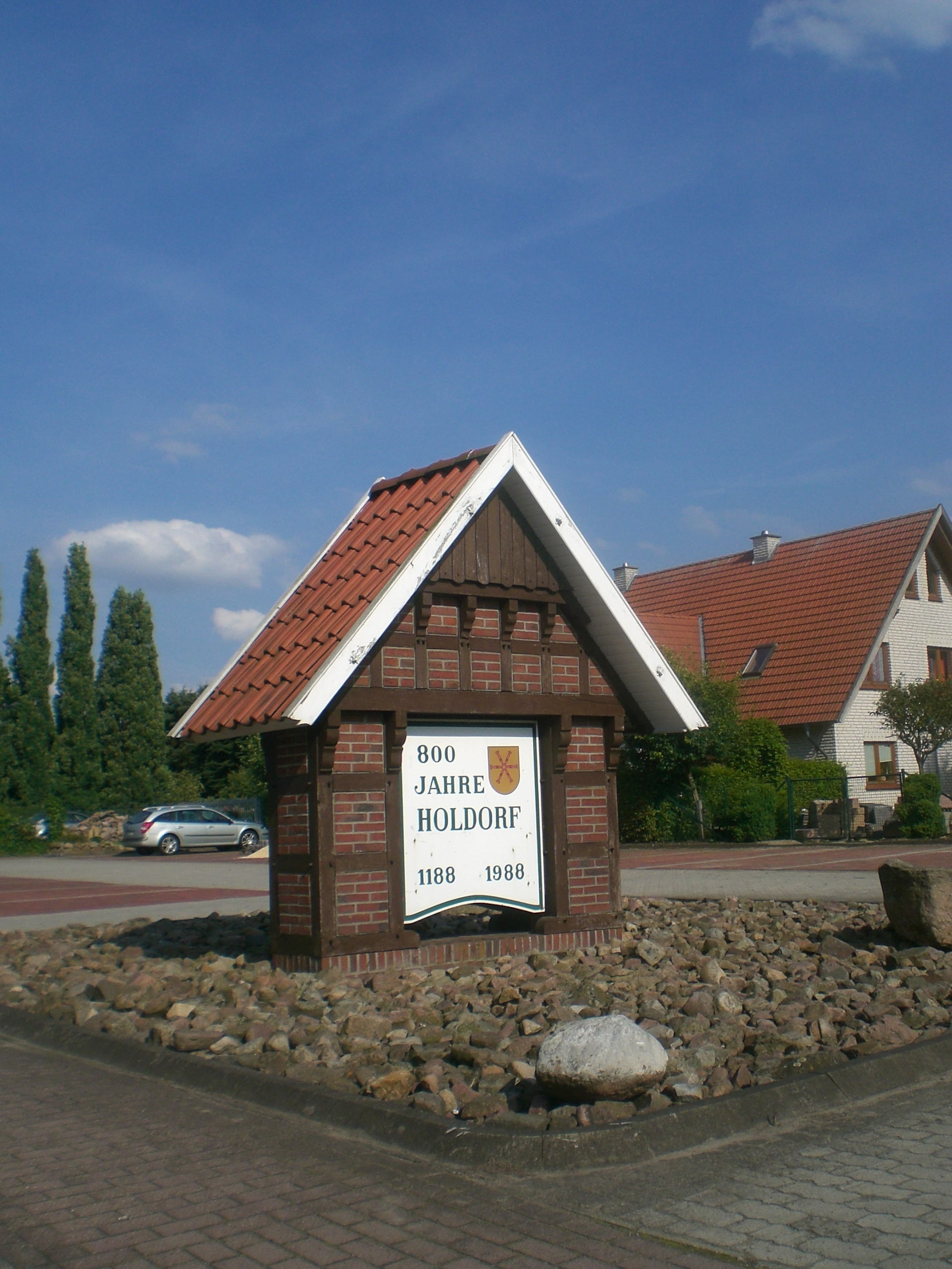 Sign at the entrance of Holdorf, Lower Saxony, Germany